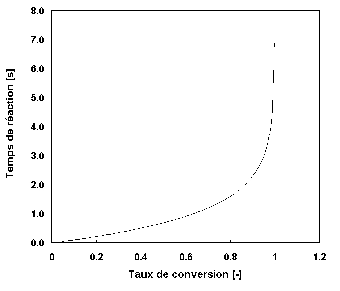 This figure shows how the reaction time changes with conversion rate in a batch reactor, for a chemical reaction of first order (kinetic constant and initial concentration were taken equal to 1). Axes legends are in french.